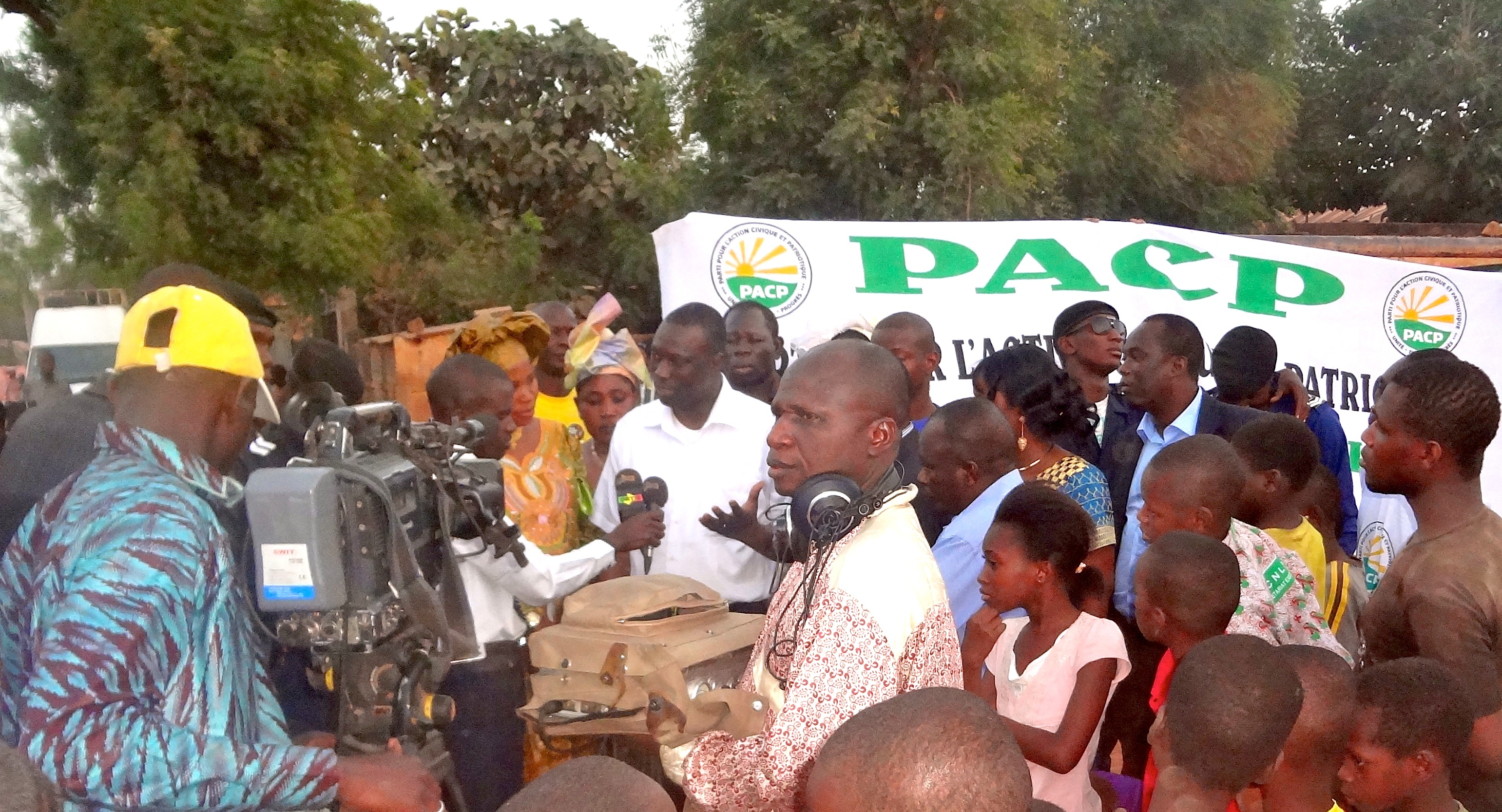 Yeah Samake speaking in front of crowd in Bamako, Mali after a rally for his 2012 presidential election.